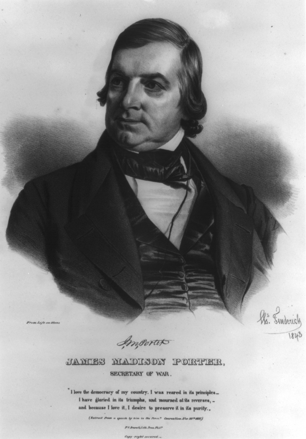 TITLE James Madison Porter, Secretary of War CALL NUMBER PGA - Fenderich, no. 188 (B size) [P&P] REPRODUCTION NUMBER LC-USZ61-1247 (b&w film copy neg.) No known restrictions on publication. MEDIUM 1 print. CREATED/PUBLISHED [no date recorded on shelflist card] NOTES This record contains unverified data from PGA shelflist card. Associated name on shelflist card: Fenderich, Ch. REPOSITORY Library of Congress Prints and Photographs Division Washington, D.C. 20540 USA DIGITAL ID (b&w film copy neg.) cph 3a03006 CARD # 2003656279